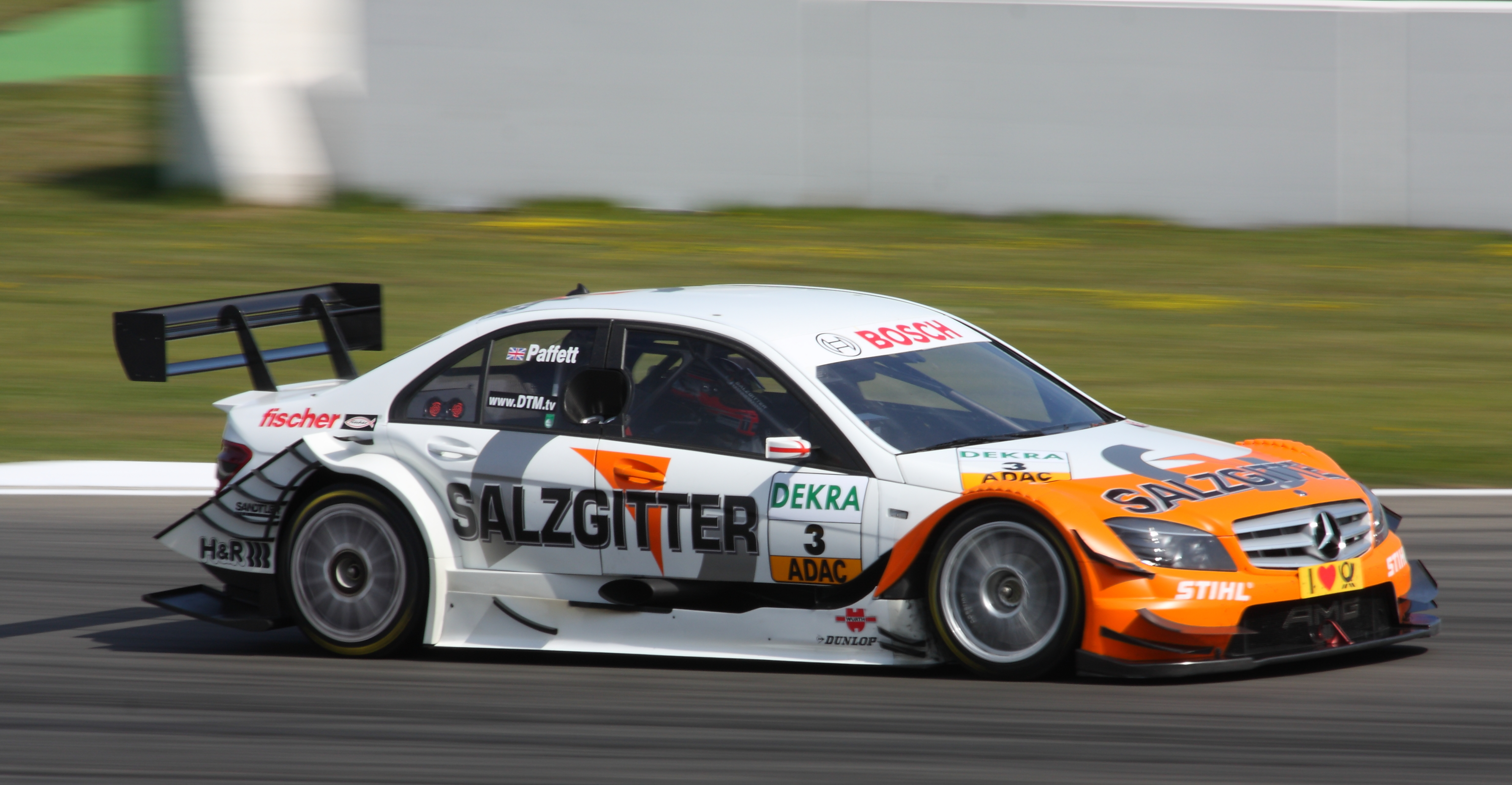 DTM car Mercedes-Benz Season 2010 (C-Class, W204), Gary Paffett (driver)